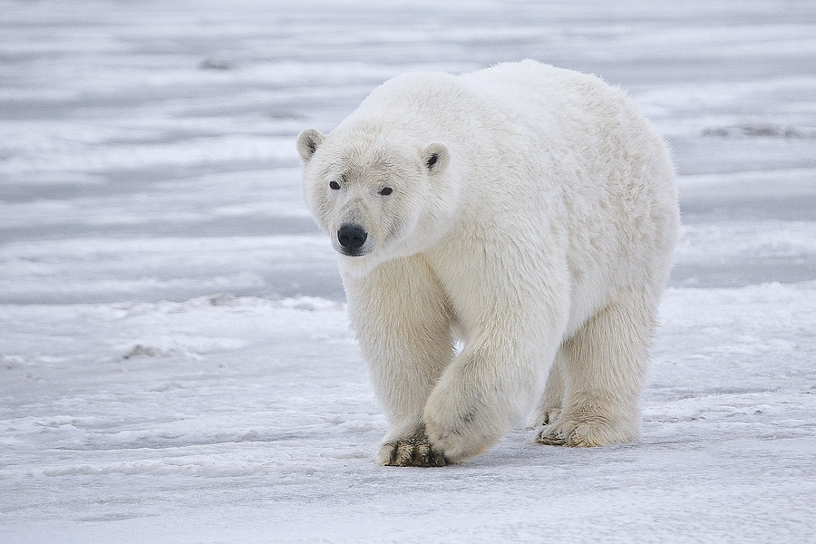 Sow Polar bear (Ursus maritimus) near Kaktovik, Barter Island, Alaska.